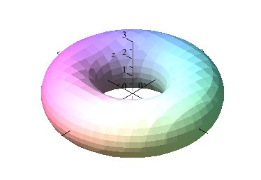 A torus